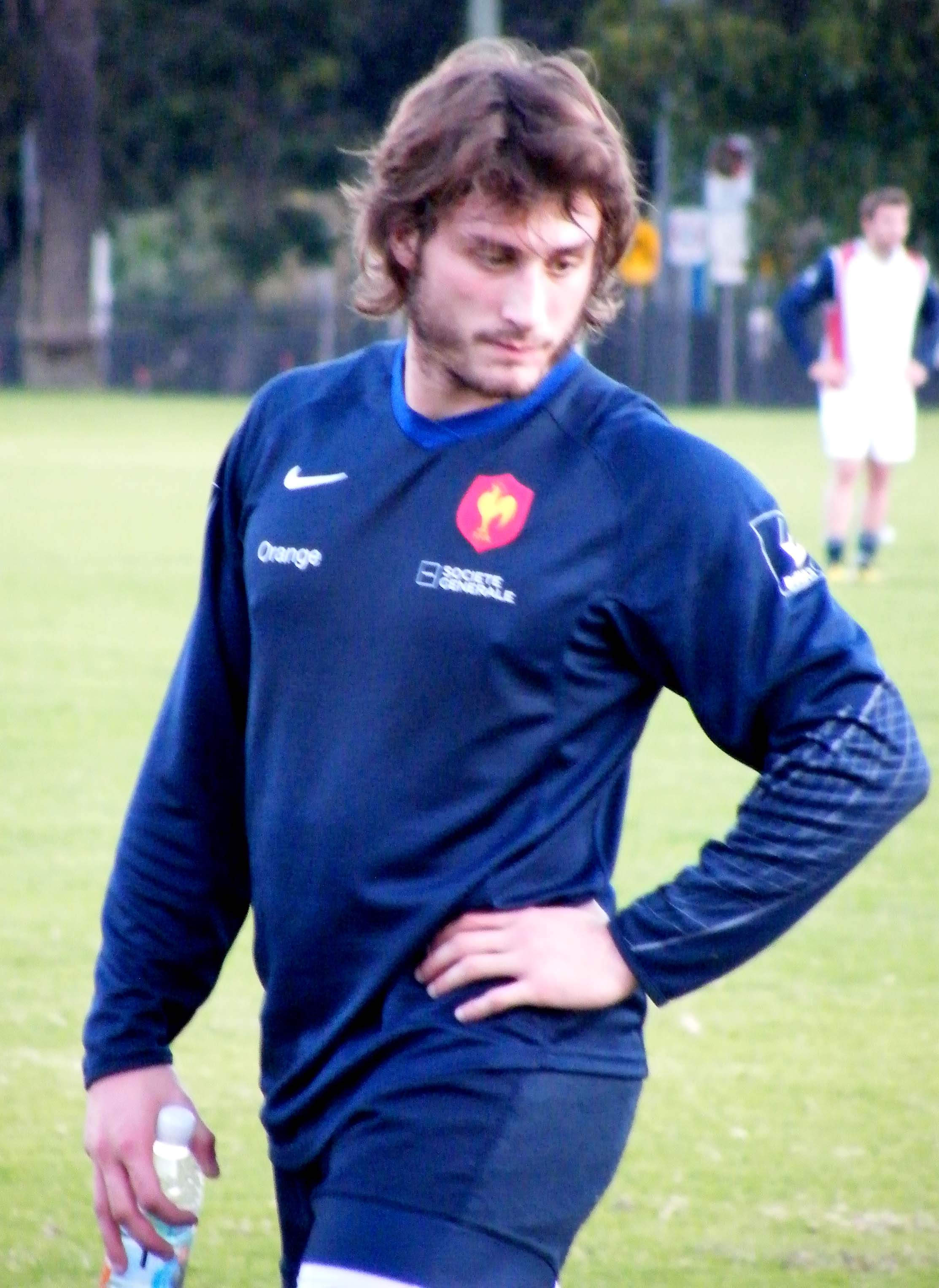 Maxime Médard - French Rugby Union Training - Moore Park, Sydney 23 June 2009